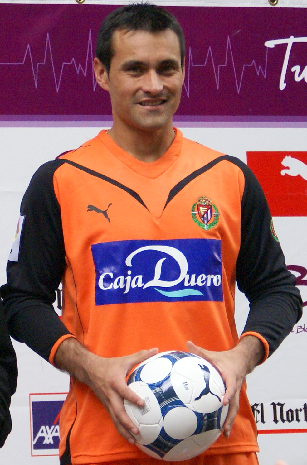 Justo Villar for Real Valladolid during the new shirts show in Valladolid.